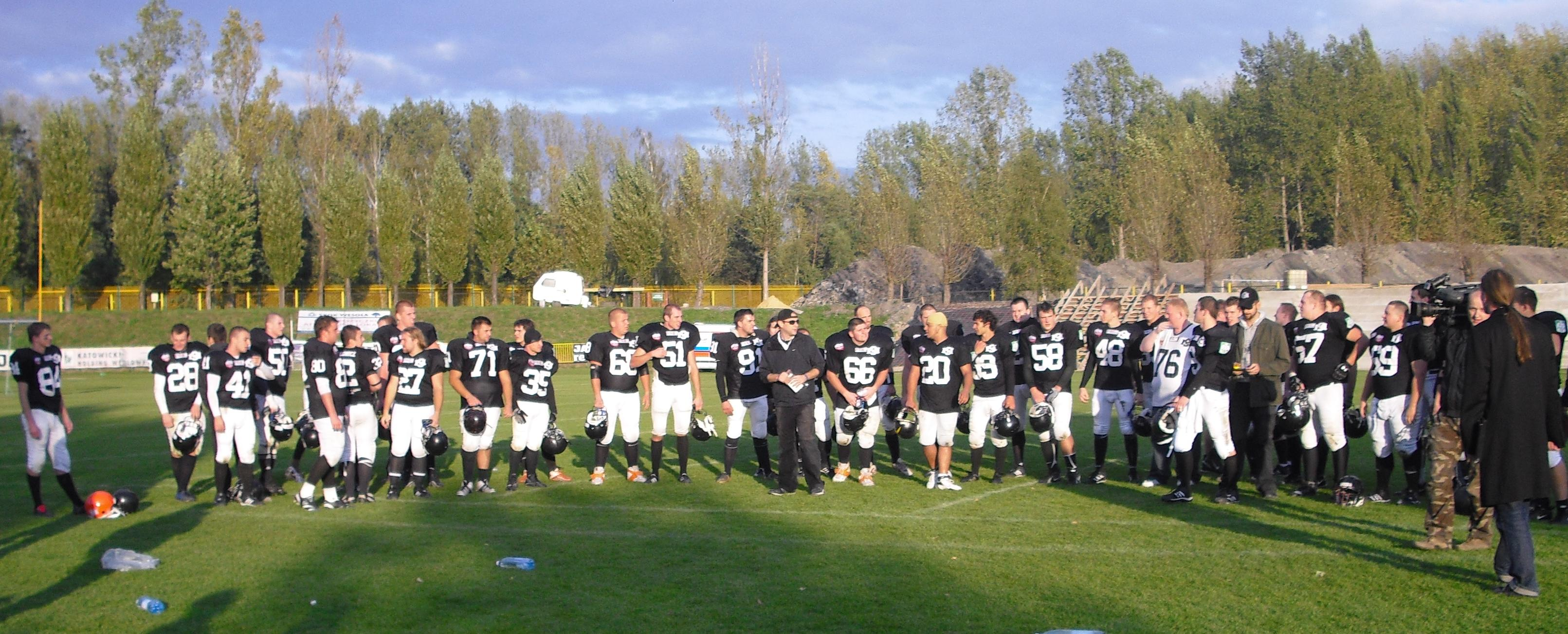 Silesian Miners - Polish american football team, picture taken after semi-final of Polsh Legue with RMF Maxxx Warsaw Eagles, 4.10.2009